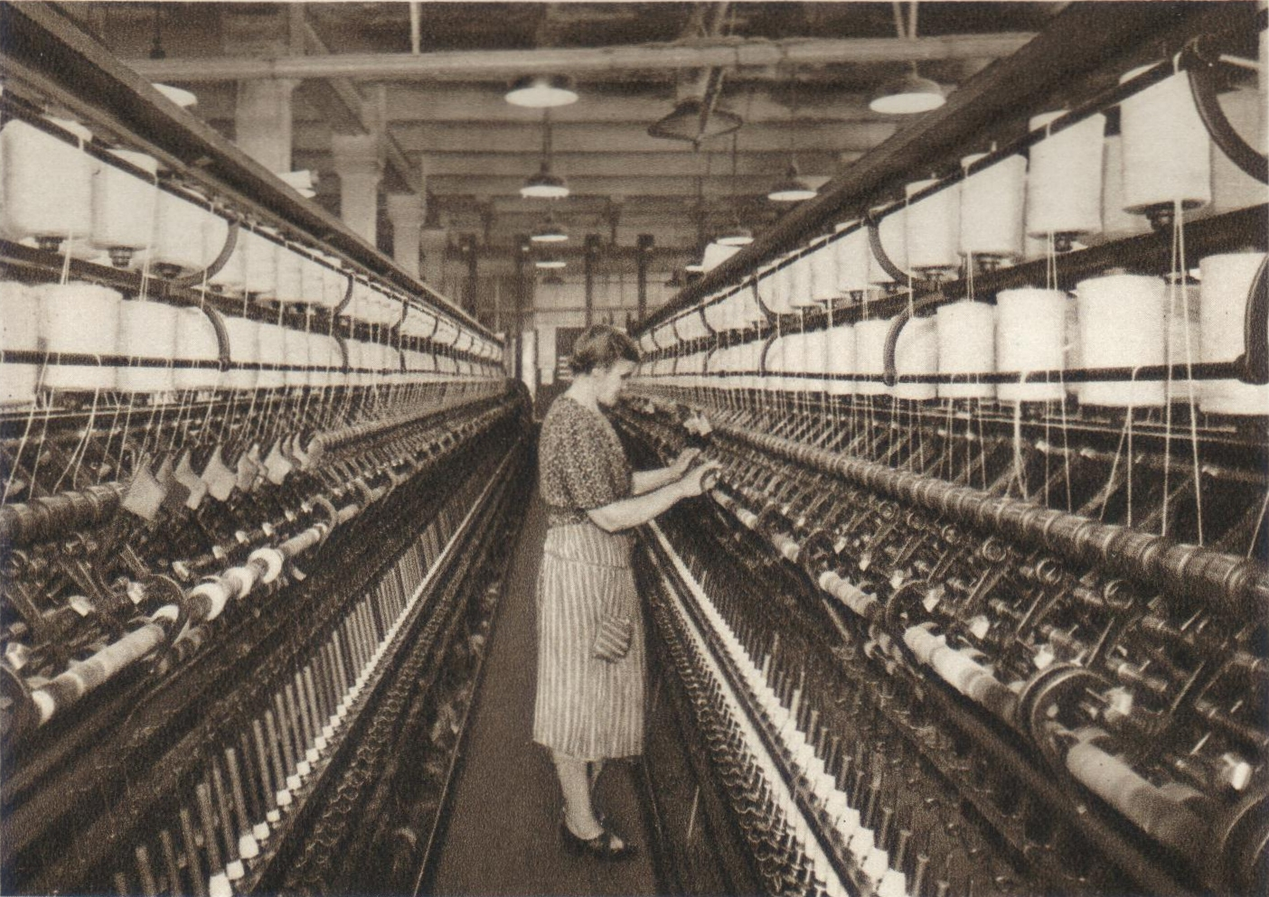 Ring spinning machine. Interior from the Drags wool factory in Norrköping, Sweden. Photo from the 1920s.